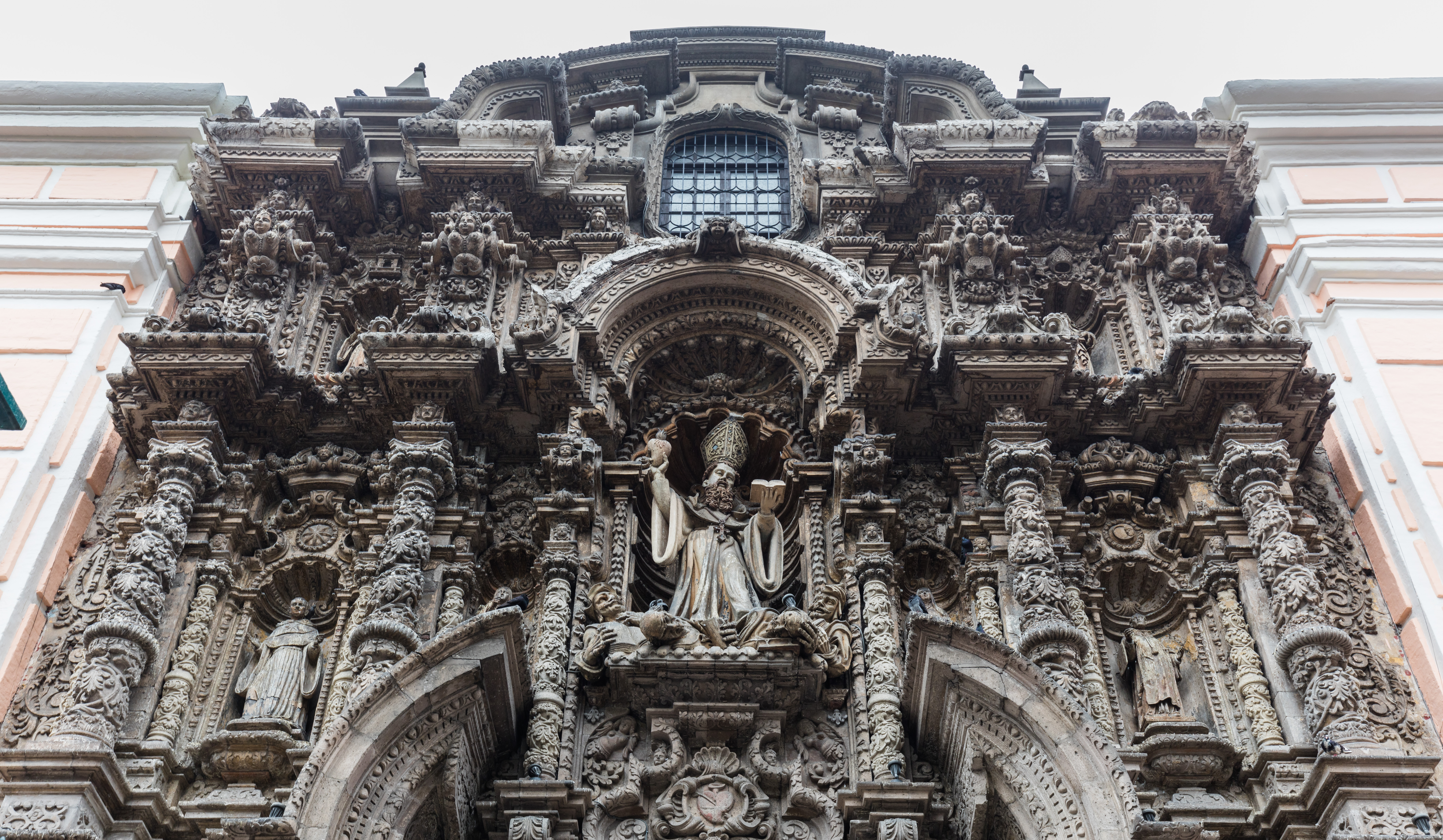 Church of St Agustin, Lima, Peru